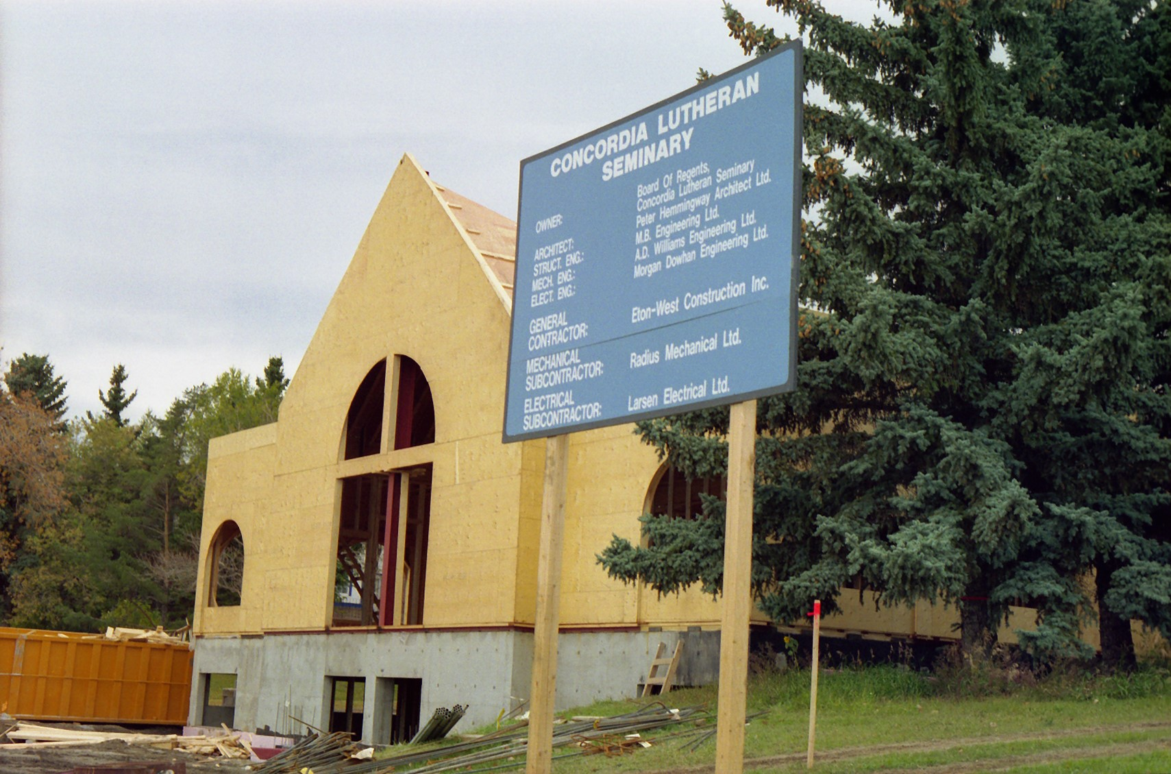 Concordia Lutheran Seminary, Edmonton, Alberta, Canada, under construction in 1990